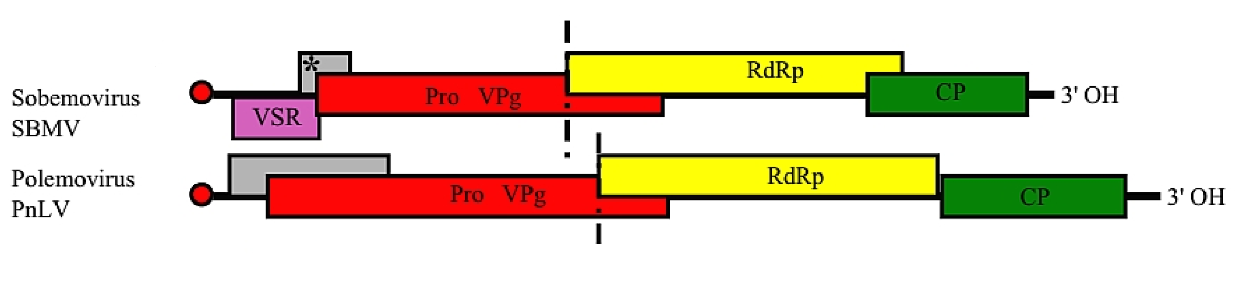 Genome annotations of the type species of phylogenetically related families and genera. RdRp genes are shown in the upper frame (frame 0); middle frame represents +1 frame and lower frame represents +2 frame. Non-canonical AUG start codon is marked with asterisk (*). –1 ribosomal frameshifting is marked by long vertical dashed line. Read-through codon is shown by short vertical dashed line. Boxes with dashed borders: unique for the type species. Different protein functions are displayed with different colors and the homology is indicated by different tones. Color code: bright yellow—picornavirus-like RdRp; soft yellows and orange—flavivirus-like RdRp (three subgroups within Tombusviridae family are shown); red—serine protease; green—CP (CPs of Tombusviridae are presented in two different tones to distinguish CPs with protruding domains (shown in olive green) and without it (shown in dark green)); blue—movement protein (MP); lilac or purple—viral RNAi suppressor (VSR); brown—replication-associated protein (Rap); grey—no function found. VPg is depicted as a red dot at the 5′ end of the genomic RNA. SBMV—Southern bean mosaic virus (NC_004060); PnLV—Poinsettia latent virus (NC_011543)